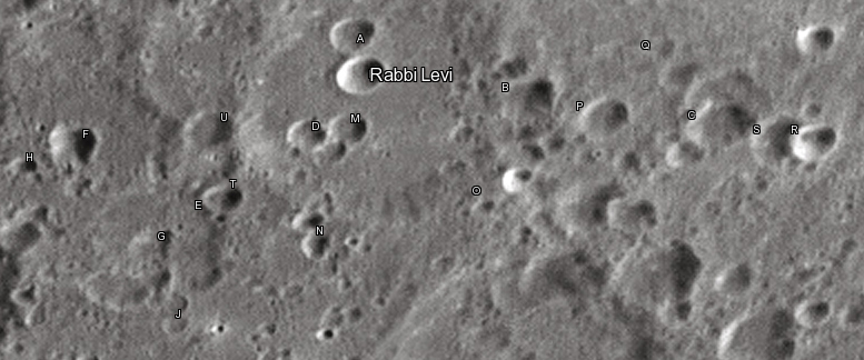 Rabbi Levi lunar crater as seen from Earth with satellite craters labeled